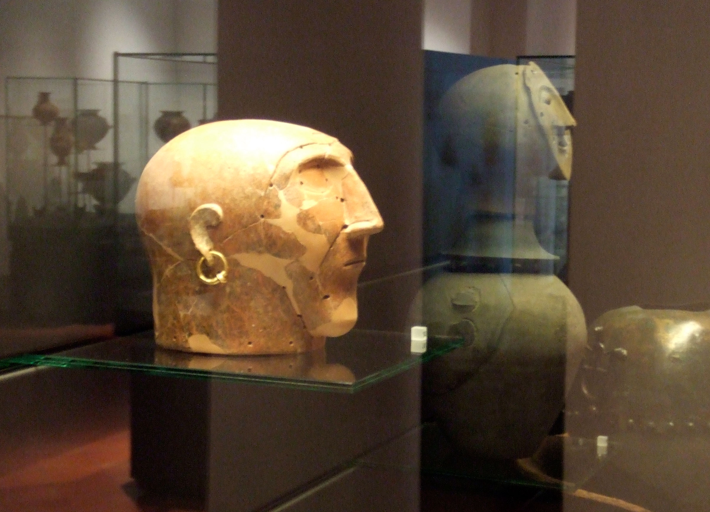 Tête de canope anthropomorphe